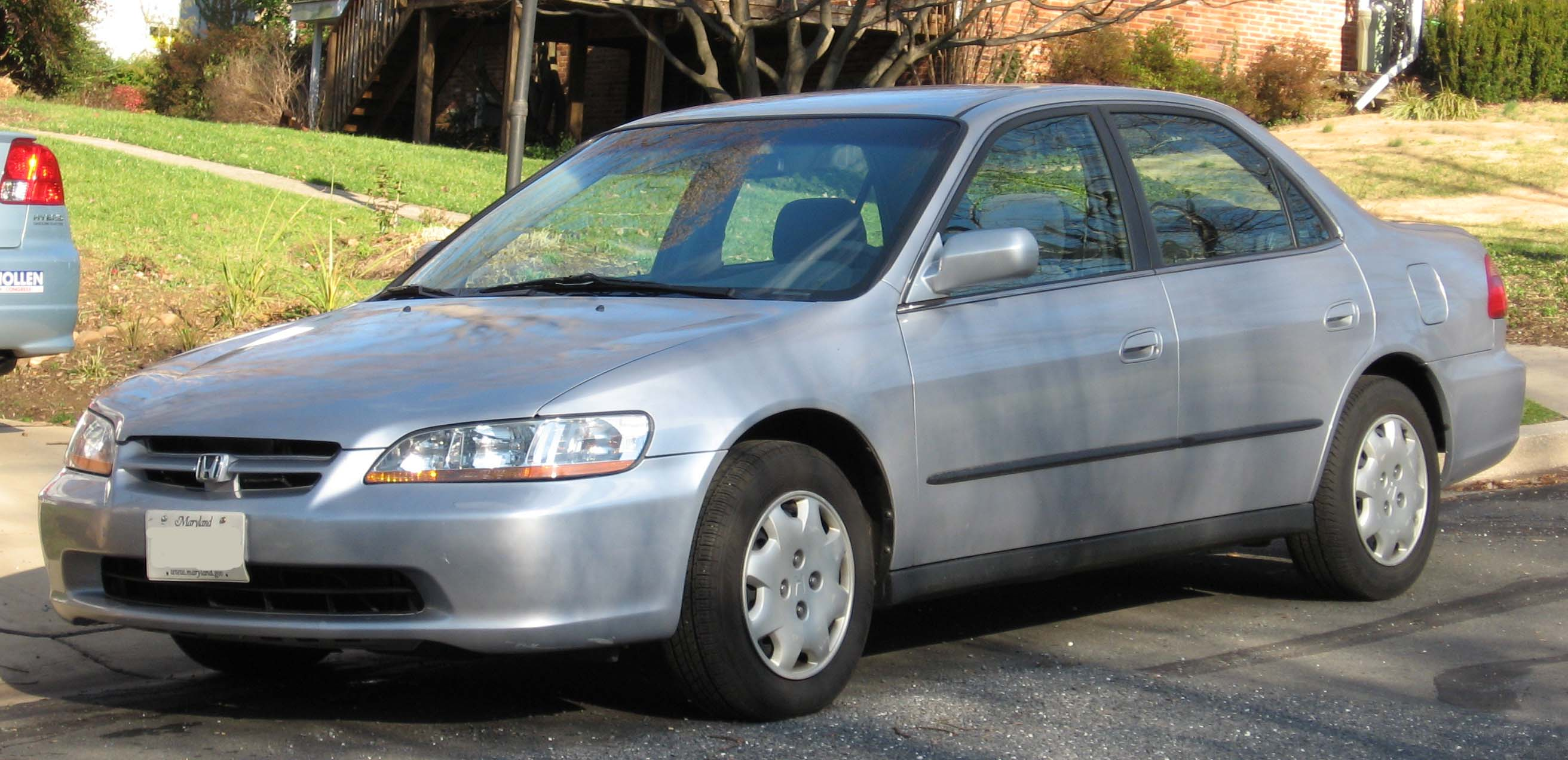 1998-2000 Honda Accord photographed in USA.